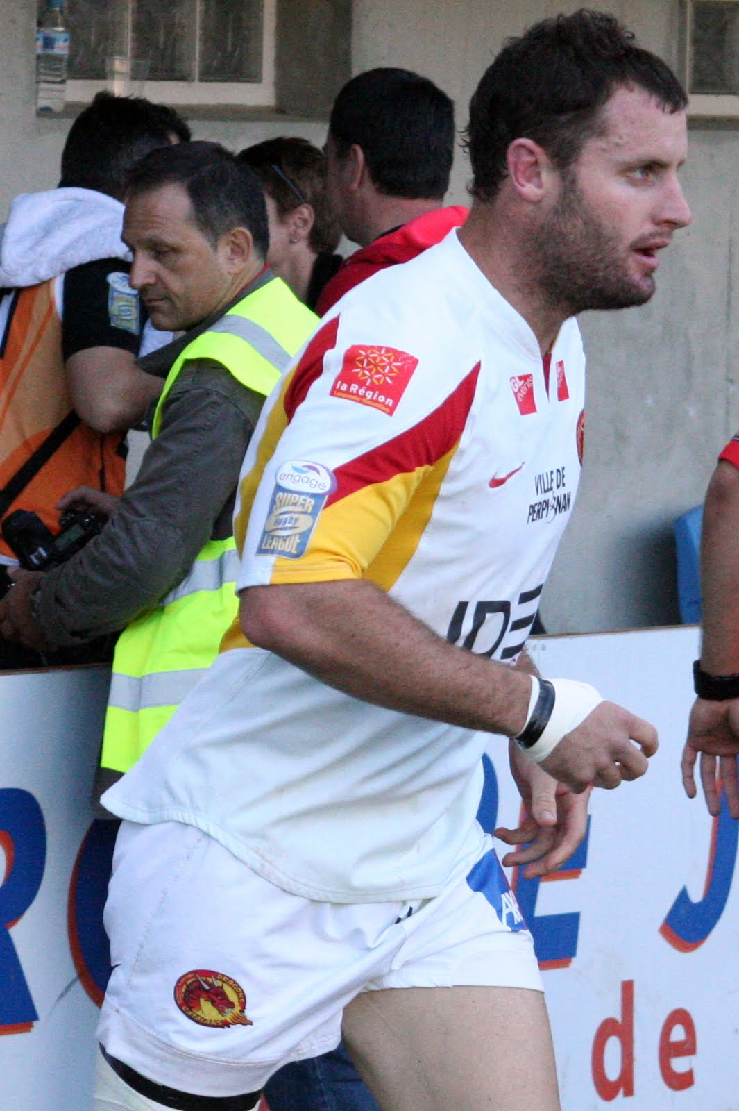 Chris Walker of the Catalans Dragons